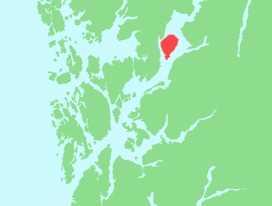 Locator map of Varaldsøy, Hordaland, Norway